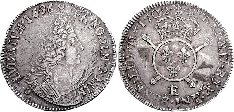 France, Royal. Louis XIV, le Roi Soleil (the Sun King). 1643–1715. AR Écu aux insignes (27.11 g, 6h). Tours mint. Dated 1702. Cuirassed bust right Crowned round coat of arms, scepter and arm of justice crossed behind. Duplessy 1533; Ciani 1907. VF, toned. N.B. Overstruck on 1696 Écu de Flandre aux palmes.